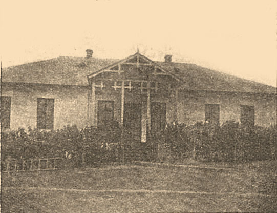 Illustration from Brockhaus and Efron Jewish Encyclopedia (1906—1913)